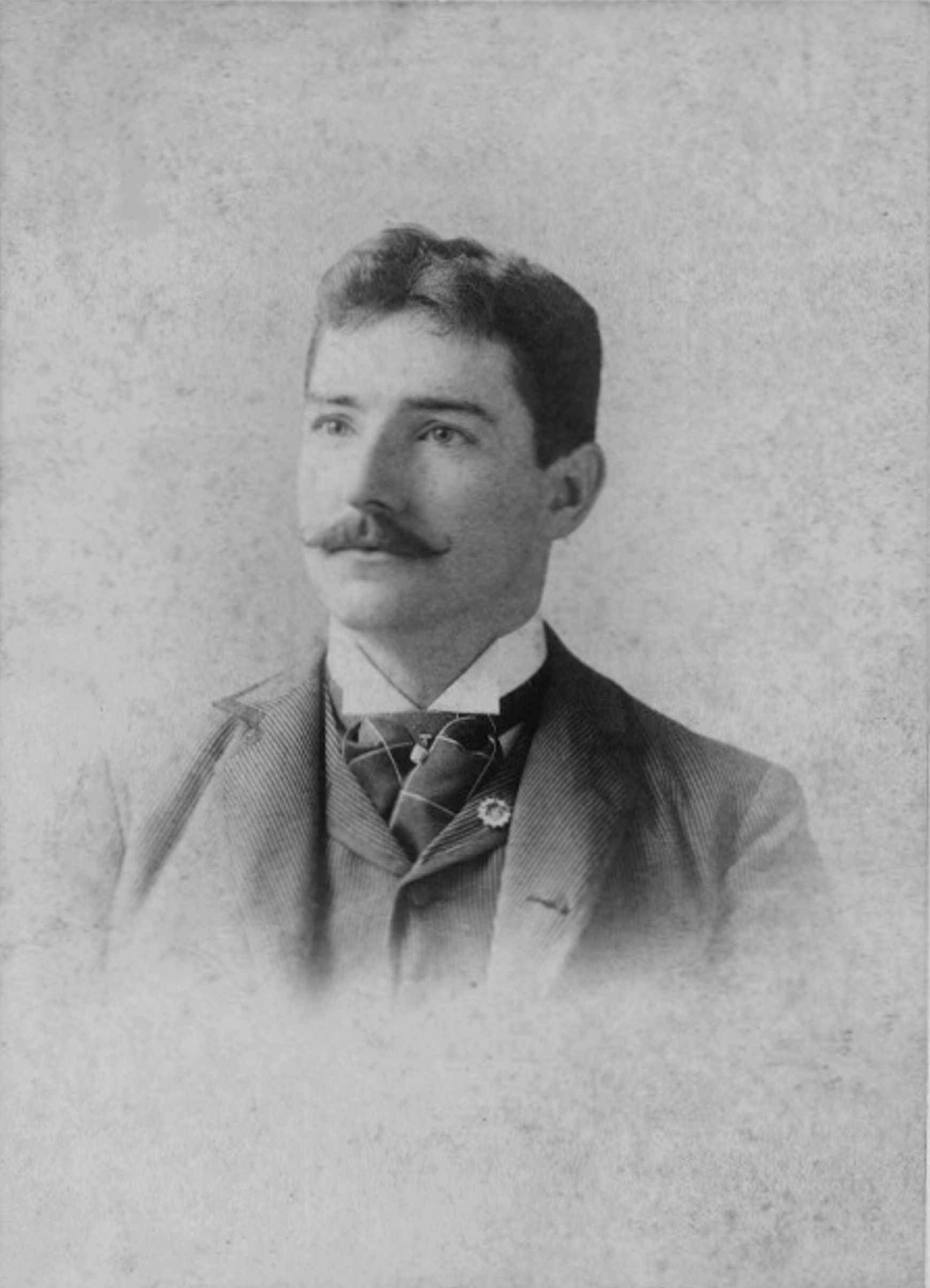 Daniel Frawley founded the Frawley Company, a theatre stock company, in San Francisco which was active at the turn of the 20th century and toured extensively in the U.S. and abroad.